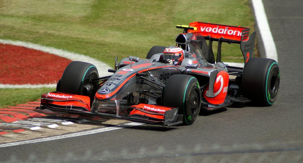 Heikki Kovalainen driving for McLaren at the 2009 British Grand Prix.